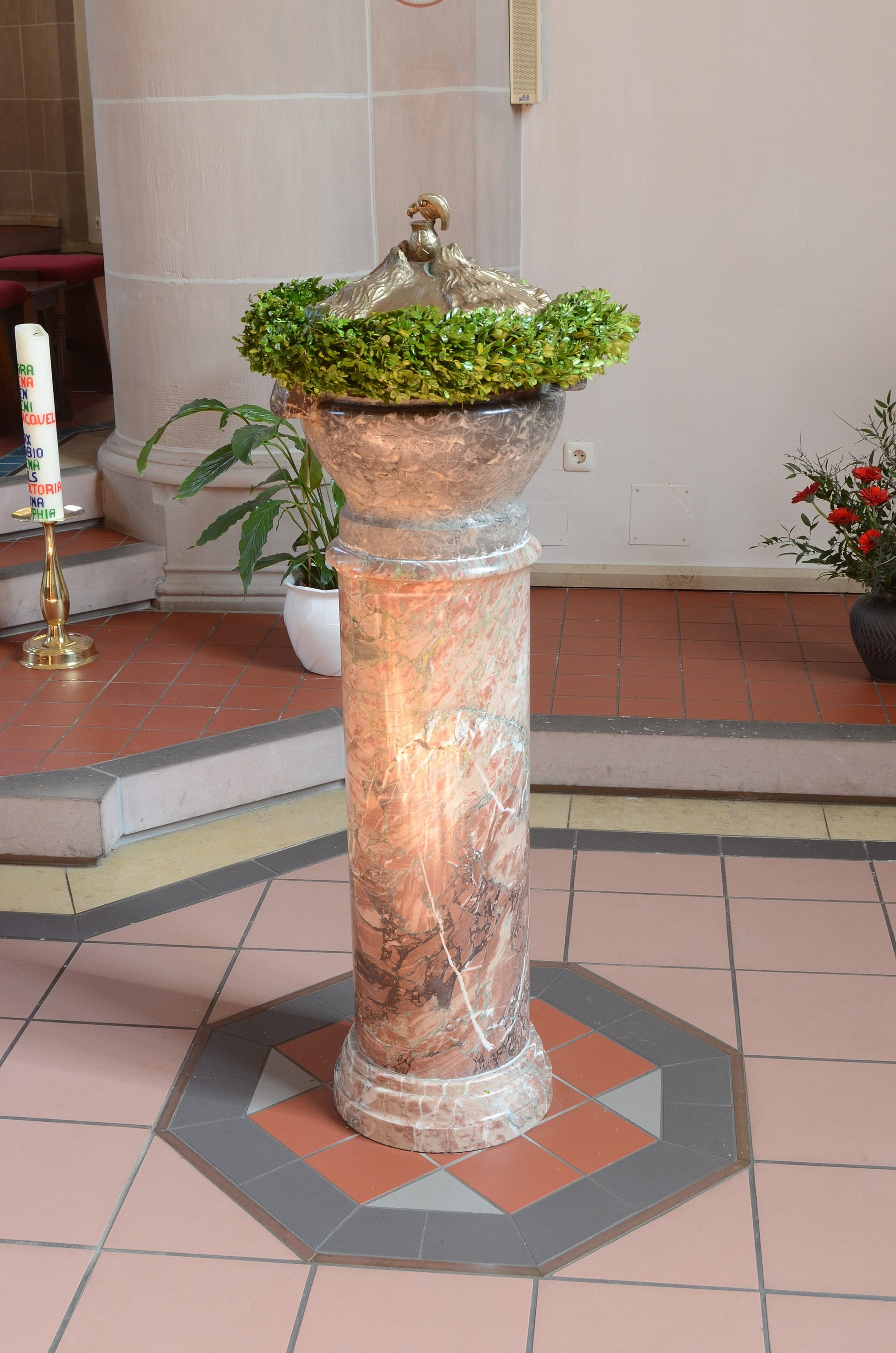 Olsberg (North Rhine-Westphalia, Germany) – district Assinghausen – Catholic Saint Catherine Church – old baptismal font (16th century) on a marble base This image shows a heritage building in Germany, located in the North Rhine-Westphalian city Olsberg (no. 34). This photograph was taken with a Nikon D7000